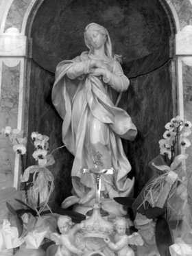 Marble sculpture by G.A.Cybei